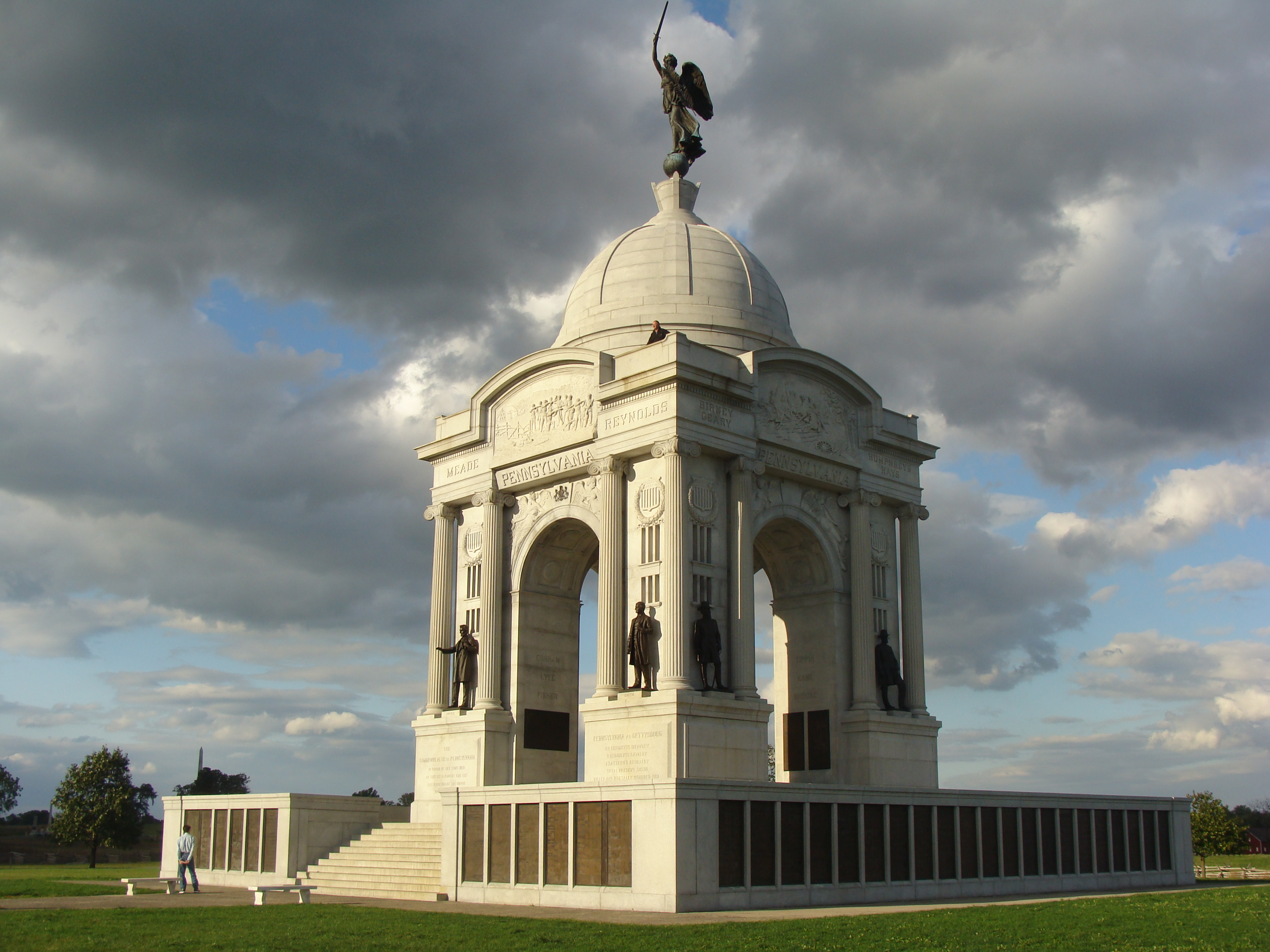 The Pennsylvania State Memorial at the Gettysburg National Military Park in Gettysburg, Pennsylvania.